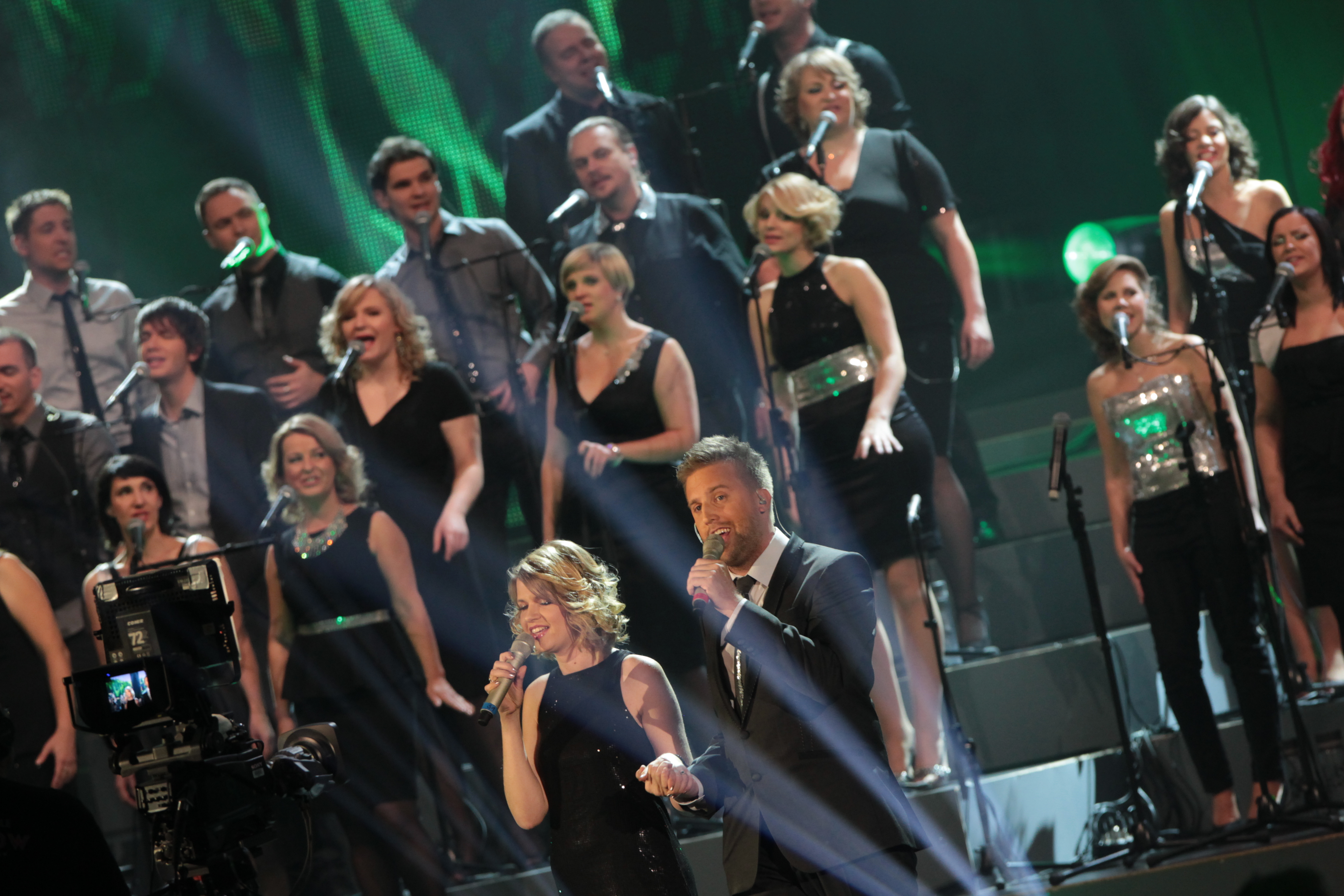 "Slovenija, od kod lepote tvoje" with Karin Možina and Luka Černe on solo